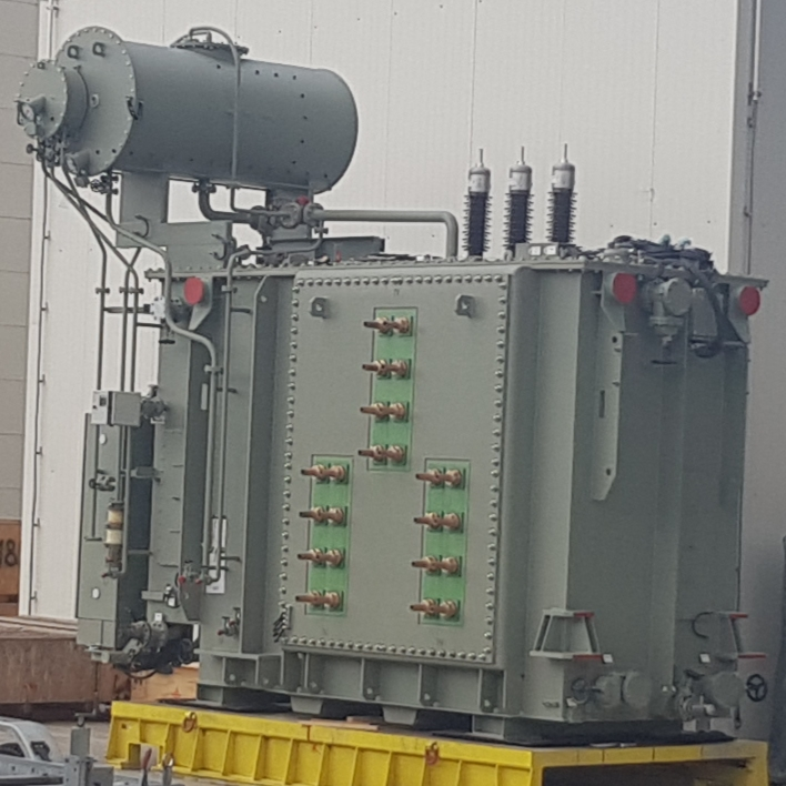 Ladle furnace transformer with internally closed delta and water-cooled U-tube bushings